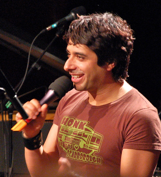 Jian Ghomeshi hosting a live taping of his radio show Q in Vancouver, 26 Mar 2009